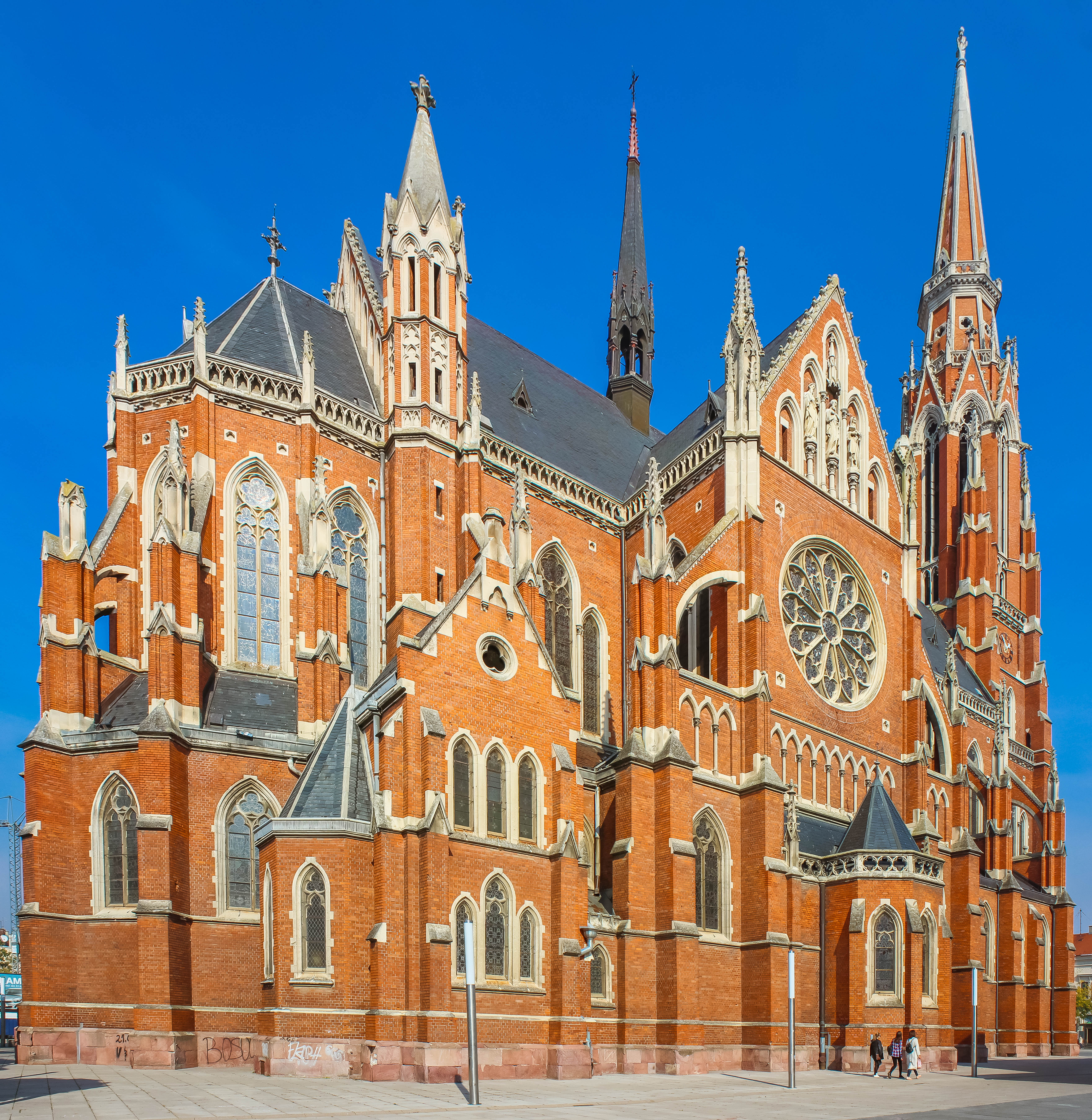 Concathedral